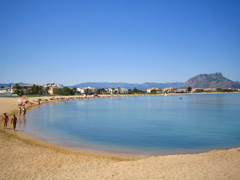 Panoramic view of the bay of Els Molins from Molins Point, Dénia, county Marina Alta, Region of Valencia, Spain.